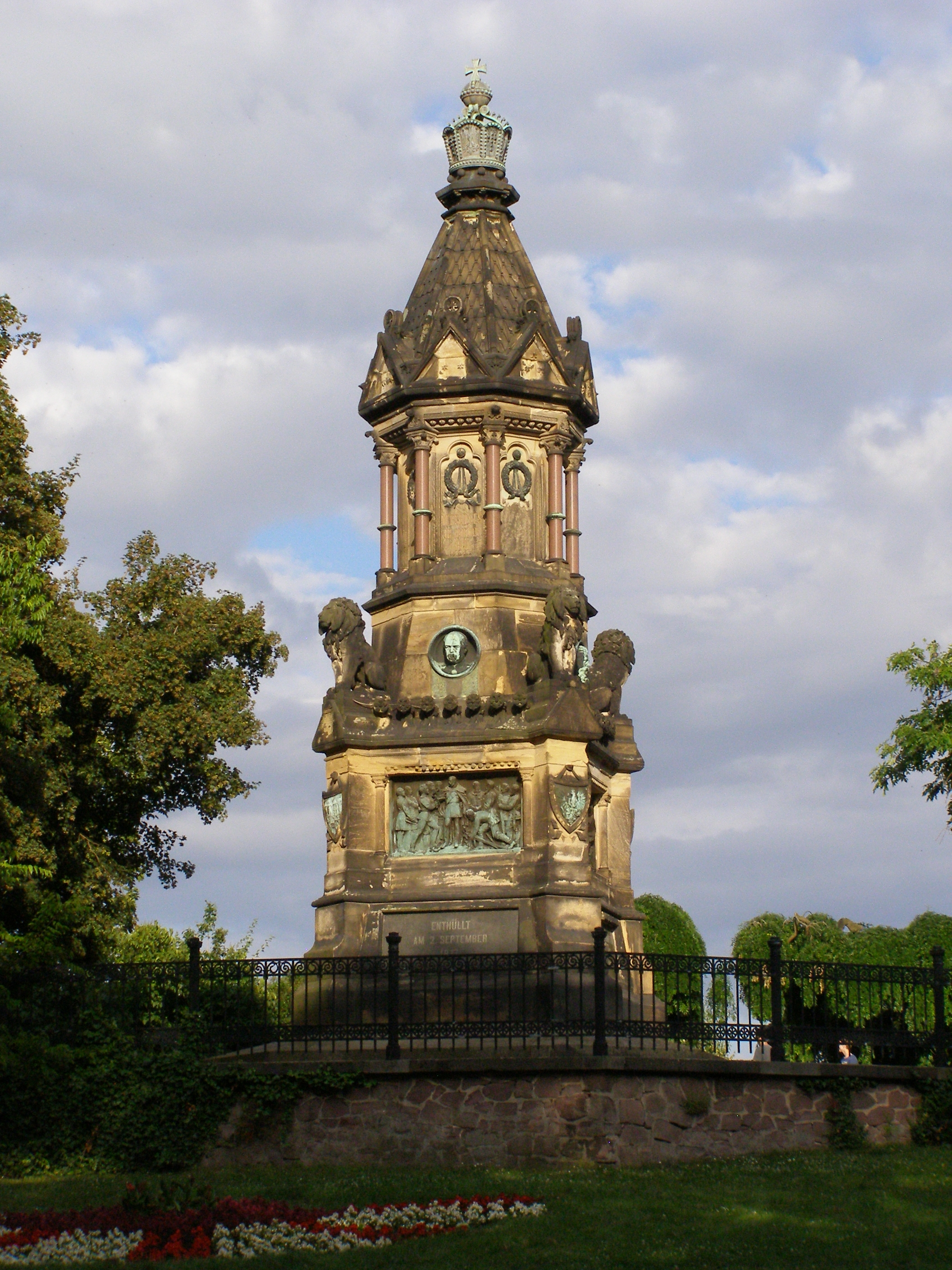 Magdeburg - monument to the Franco-Prussian war of 1870